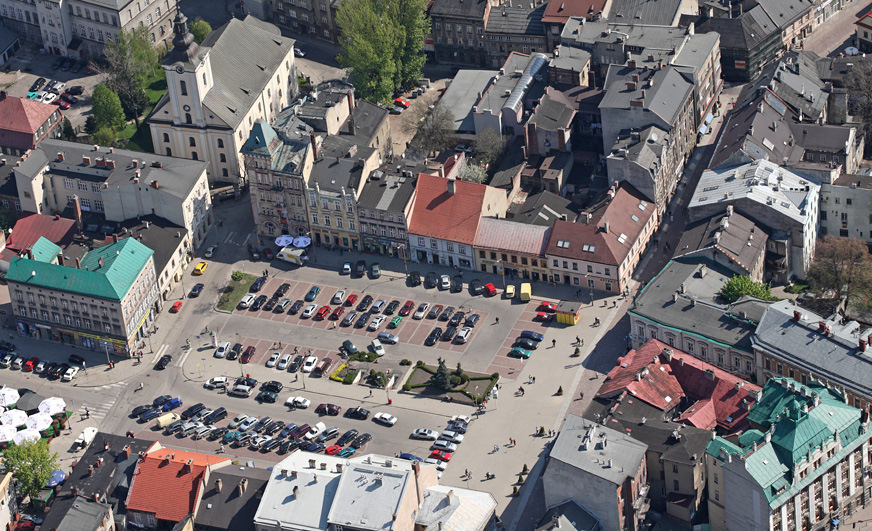 Aerial photography of Wojska Polskiego Square in Bielsko-Biała, Poland.